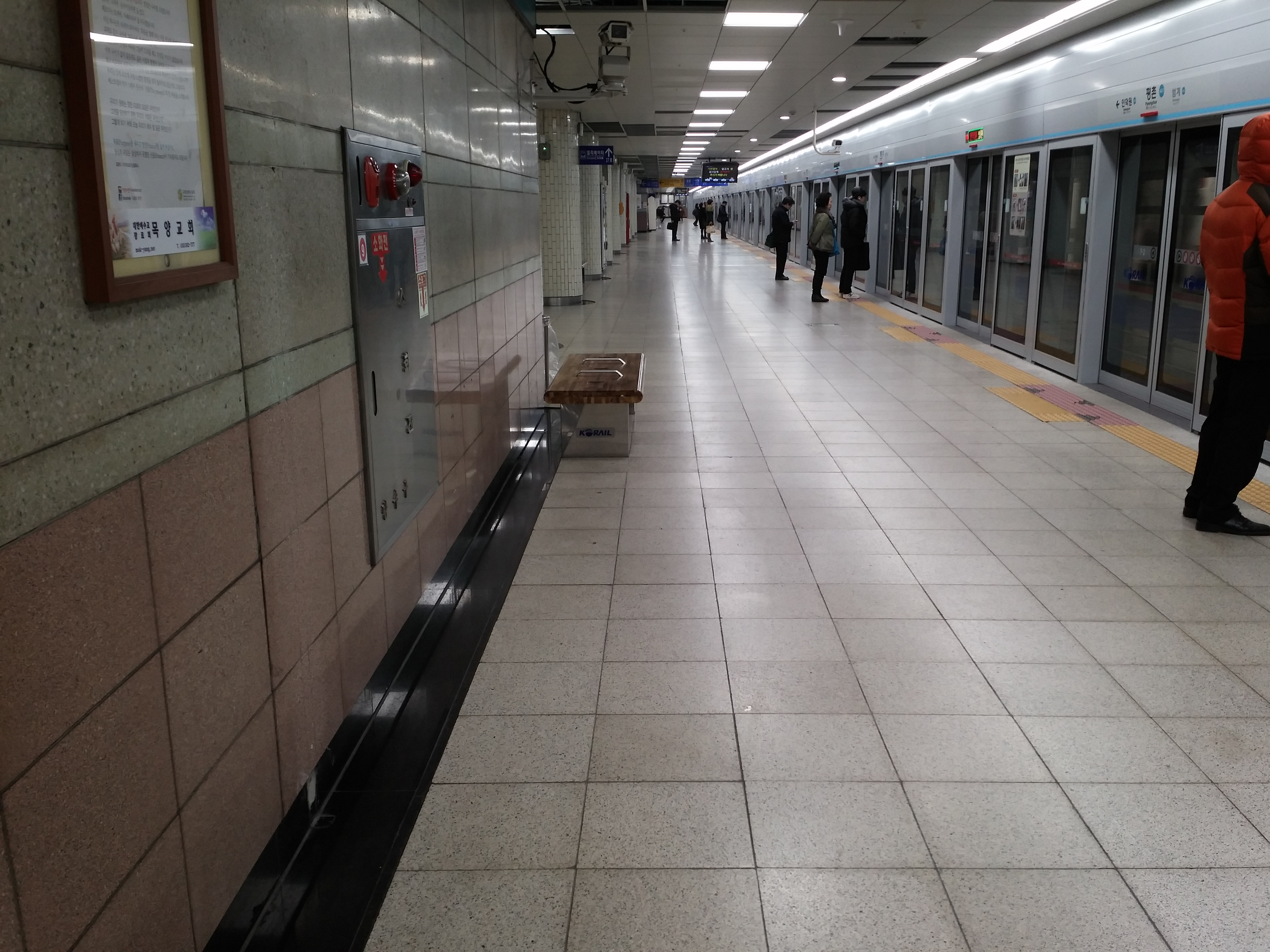 Pyeongchon Station Platform